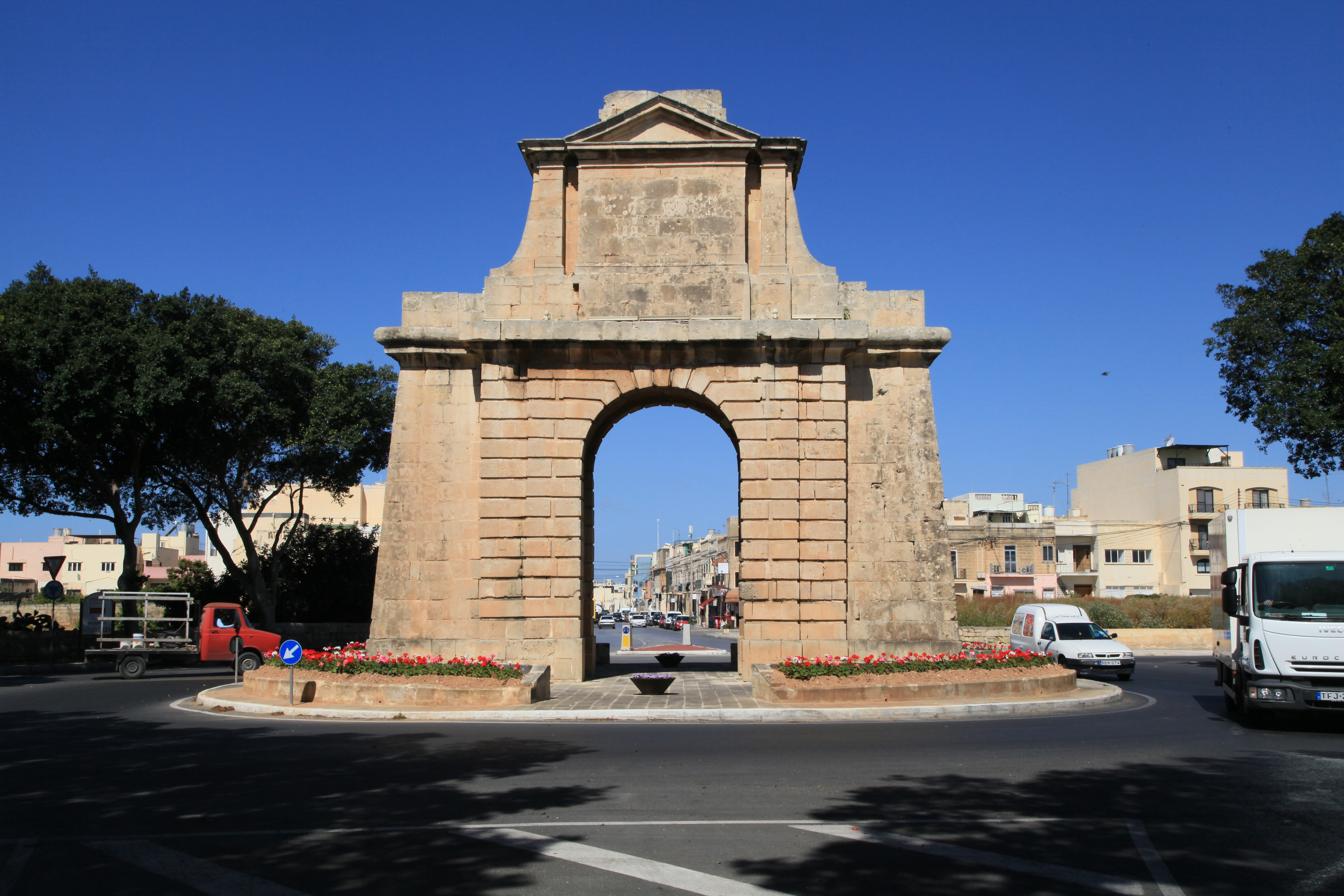 Hompesch Arch at Triq il-Mina ta' Hompesch in Fgura / Triq il-Mina ta' Hompesch in Żabbar, Malta